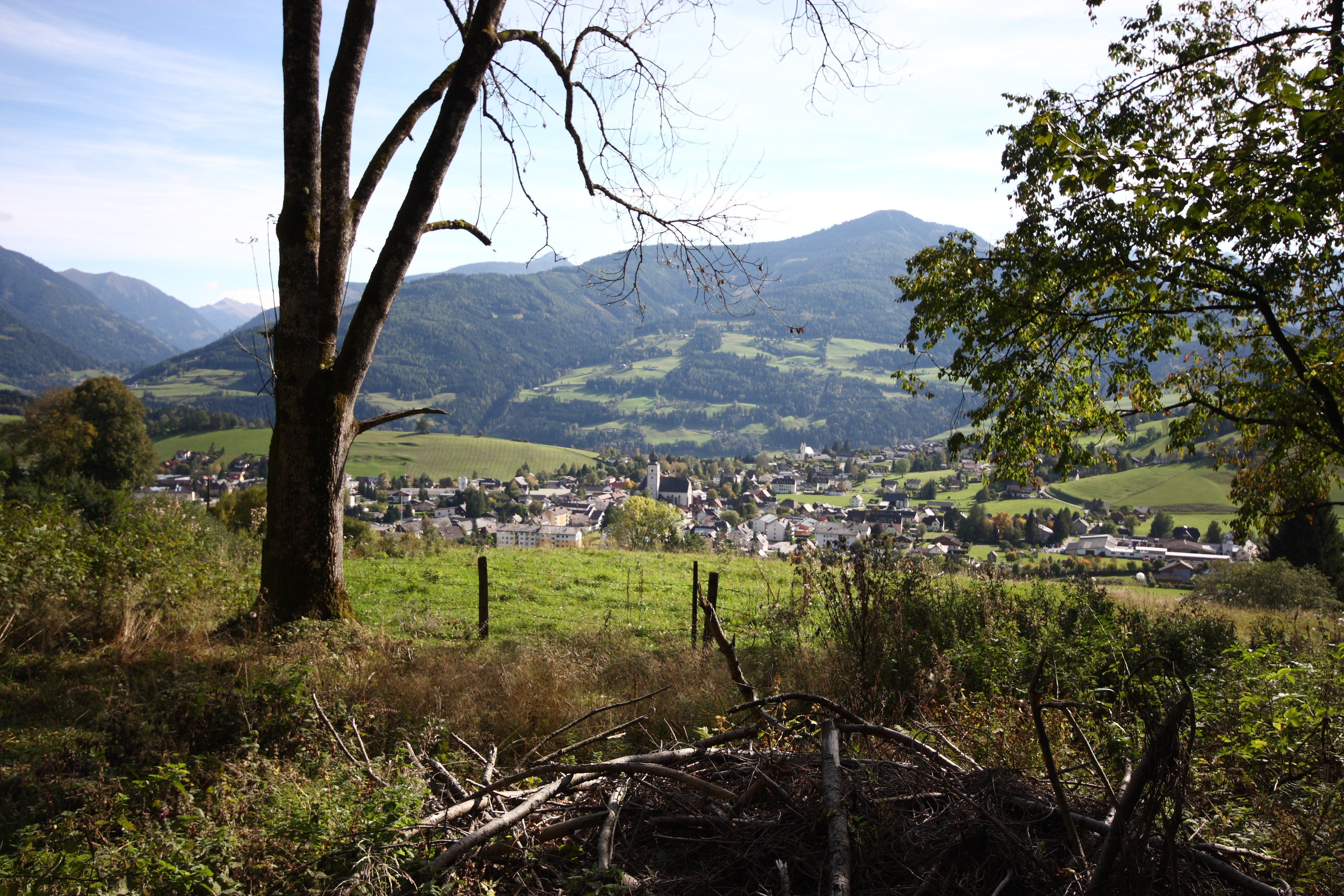 Gröbming, Styria, Austria